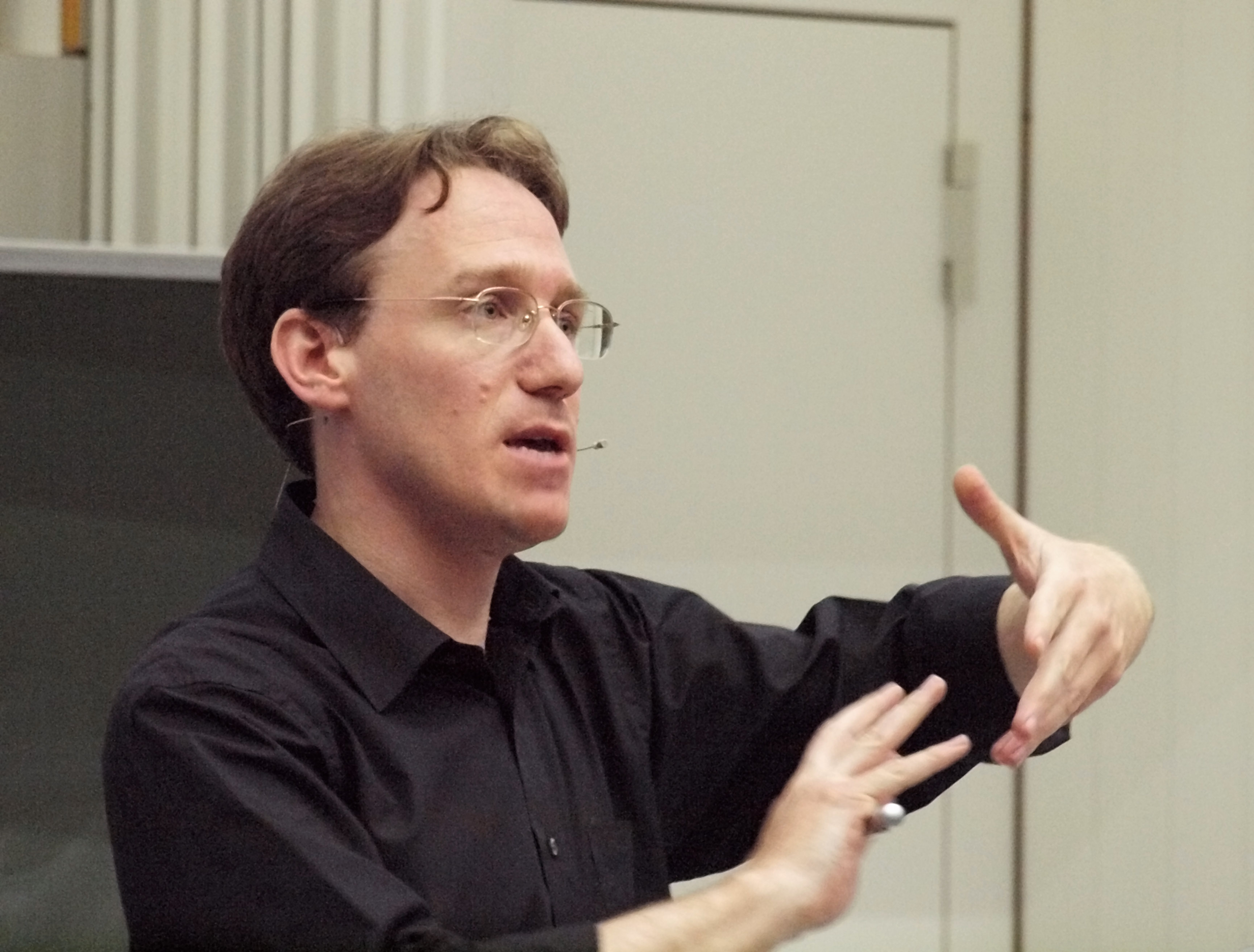 British geneticist Simon Fisher, who identified the FOXP2 gene, at a lecture in Mainz, Germany.